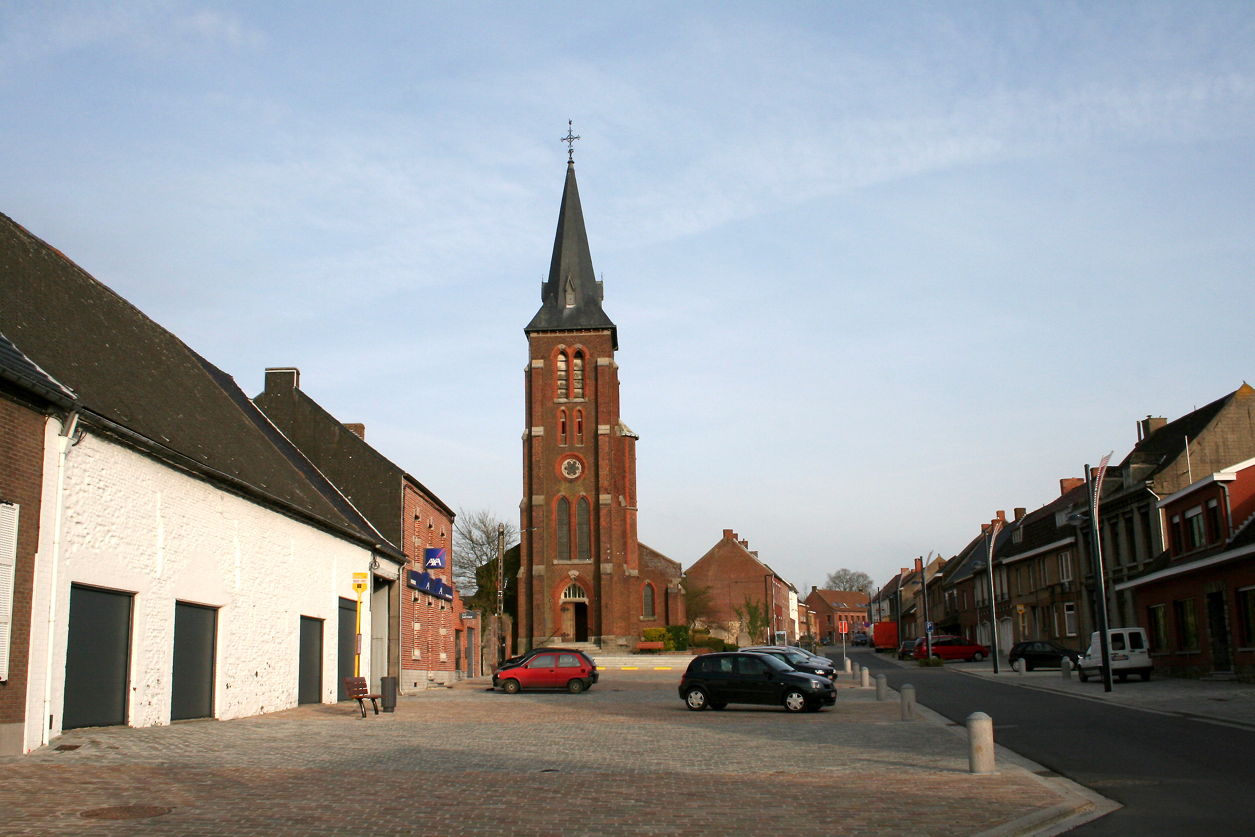 Ghislenghien (Belgium), rue de Ghislenghien.